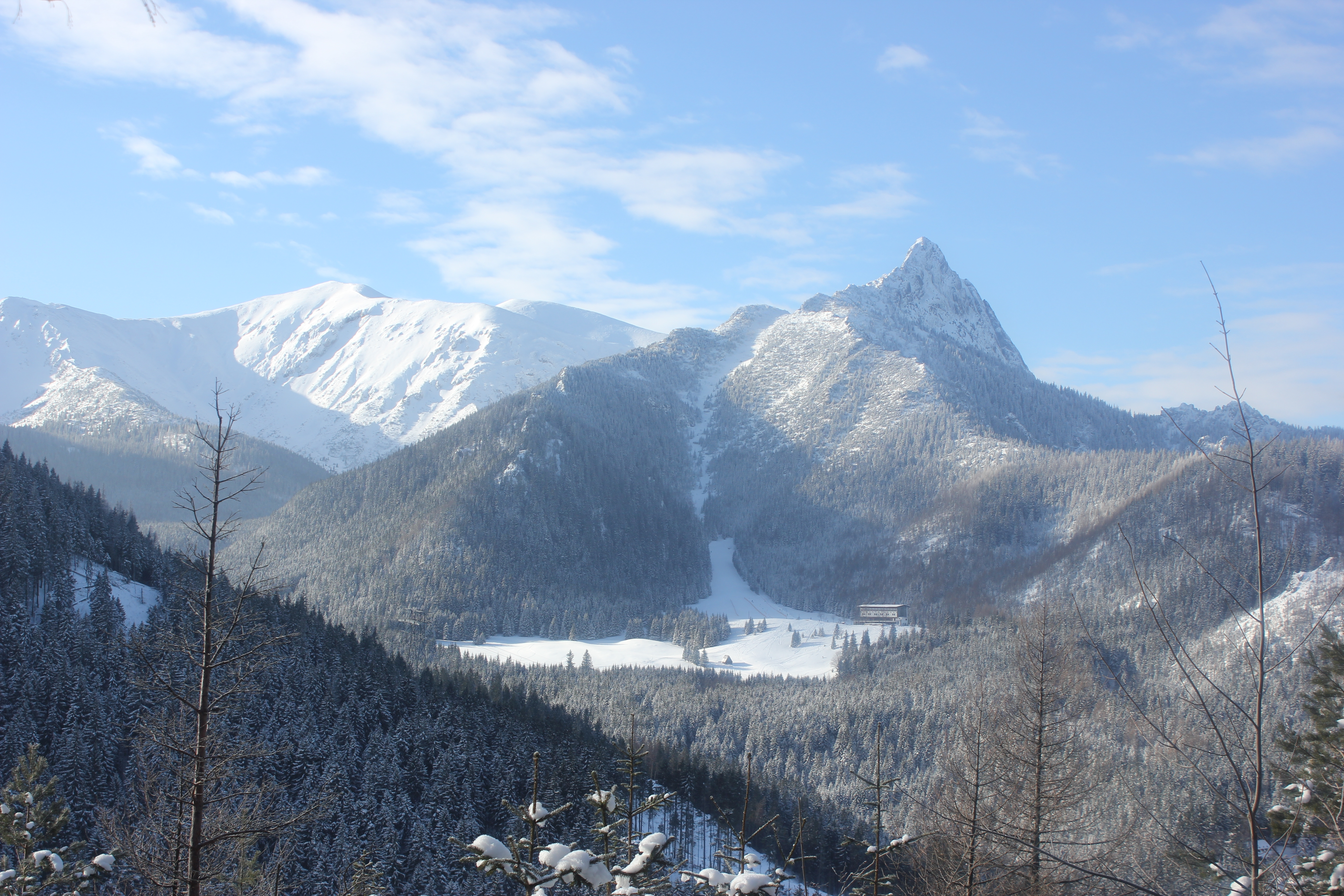 Mount Giewont seen from mount Boczań